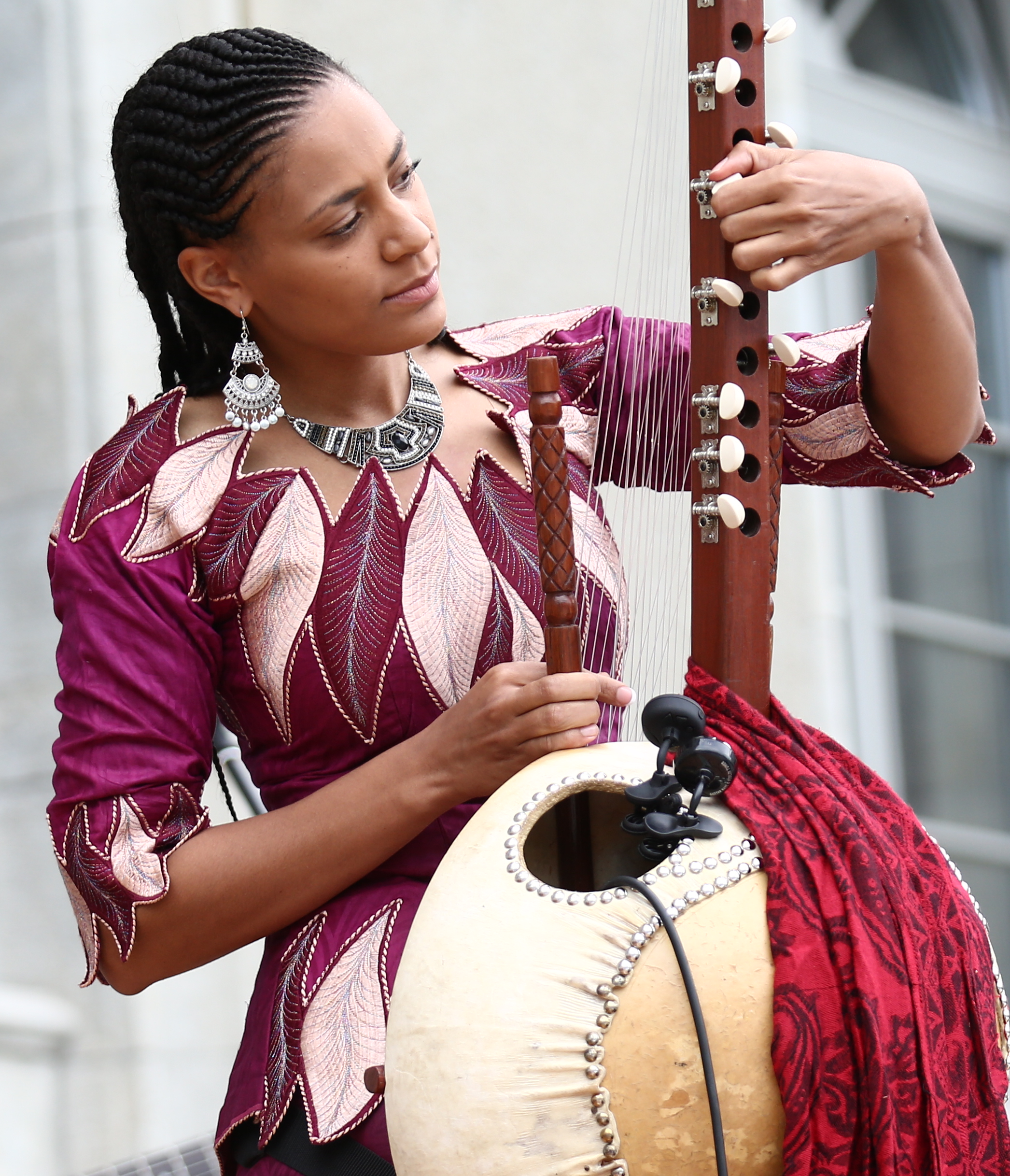 Sona Jobarteh tuning a kora with geared tuning pegs at day one of the Aid for Trade Global Review 2017